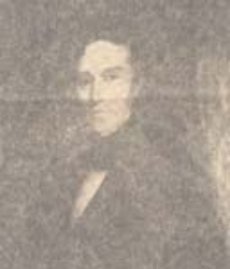 Alexander McClung, before 1855